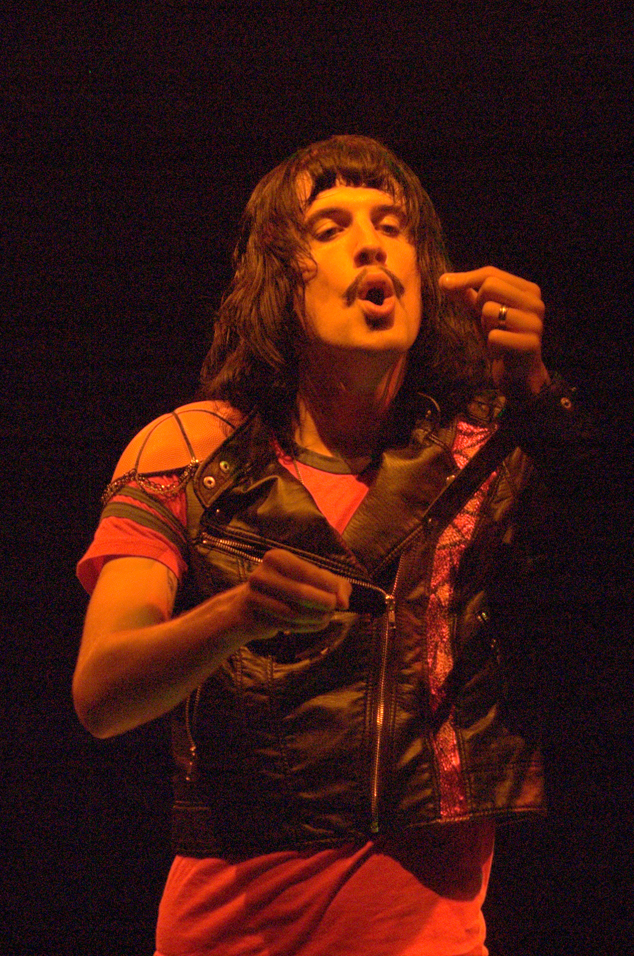 Foxy Shazam vocalist Eric Sean Nally performs with band at House of Blues, Boston